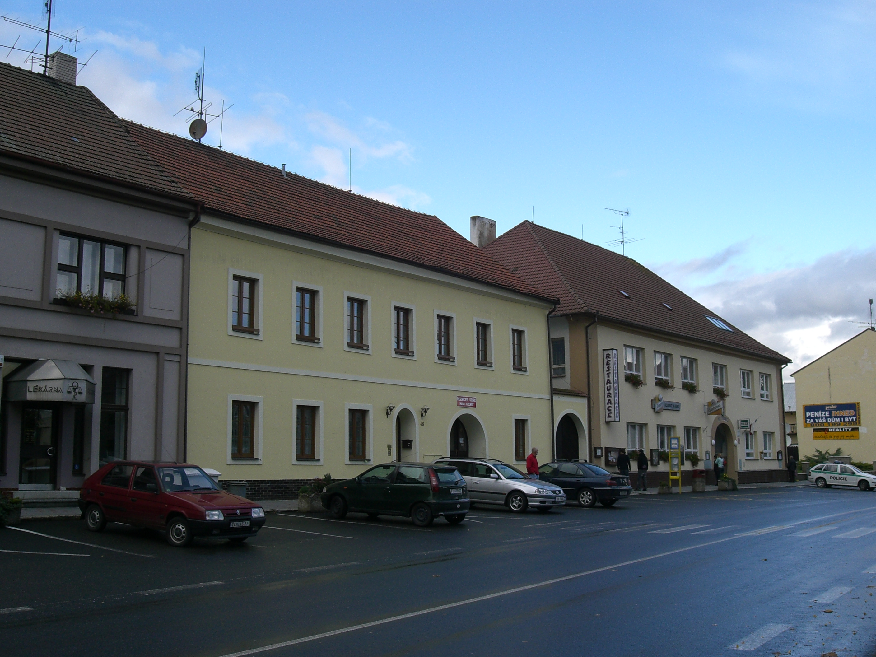 Chýnov city - square, Czech Republic 49°24′24.37″N 14°48′40.38″E / 49.4067694°N 14.8112167°E